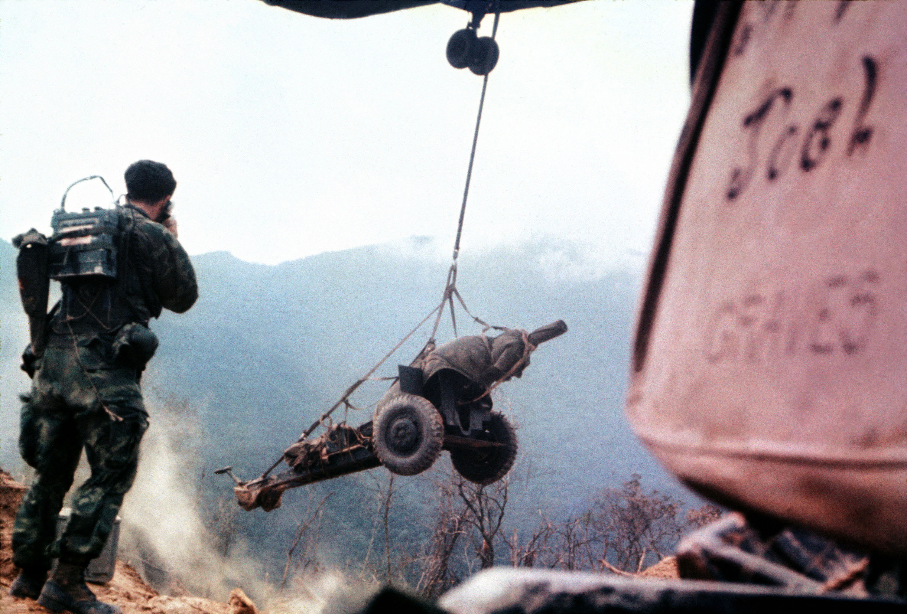 A helicopter lowers an M101 105 mm howitzer into position during the construction of a mountain-top fire support base. The helicopter is being guided in by a member of a 3rd Marine Division construction team.